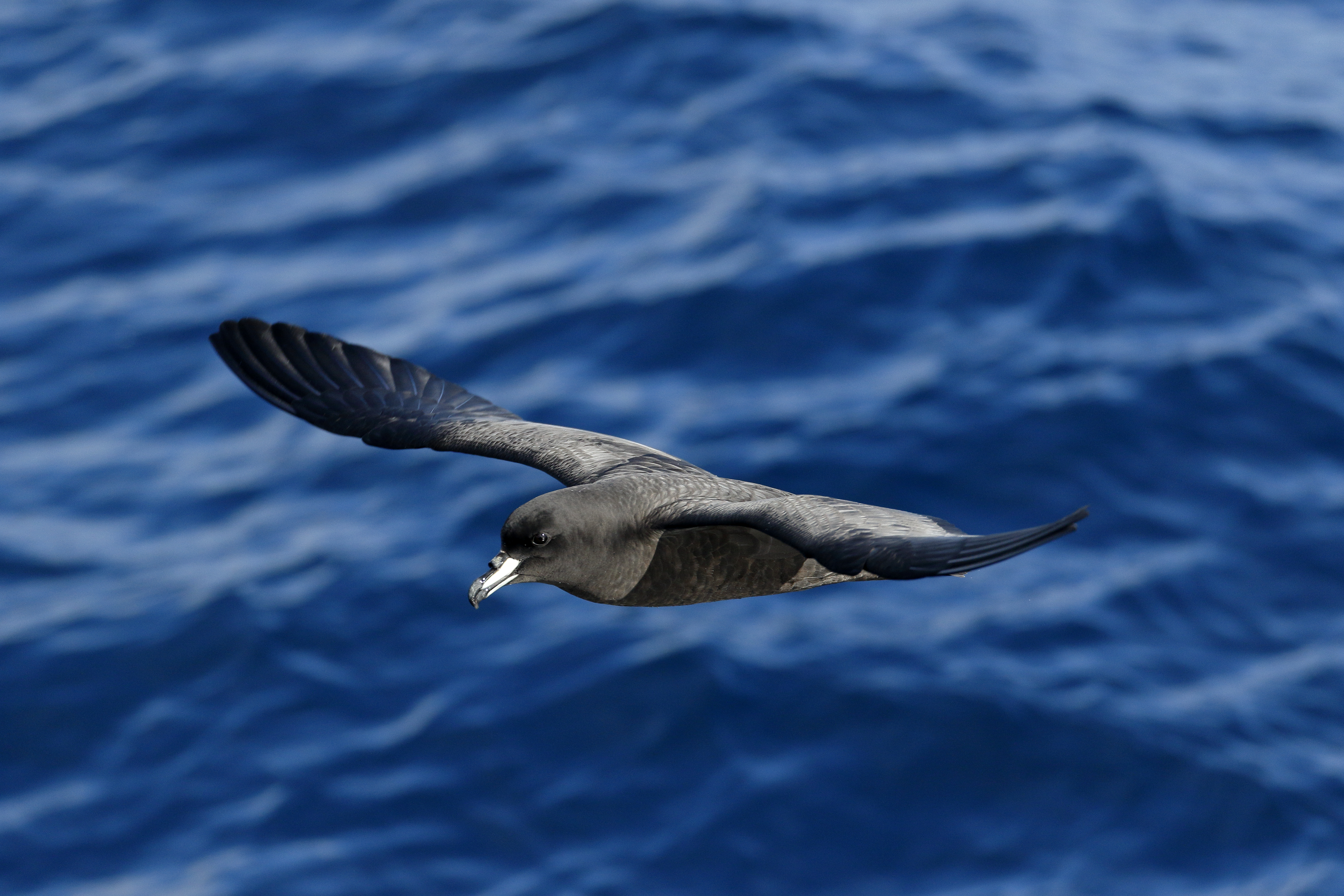 Westland petrel flying over water in Port Fairy, Victoria